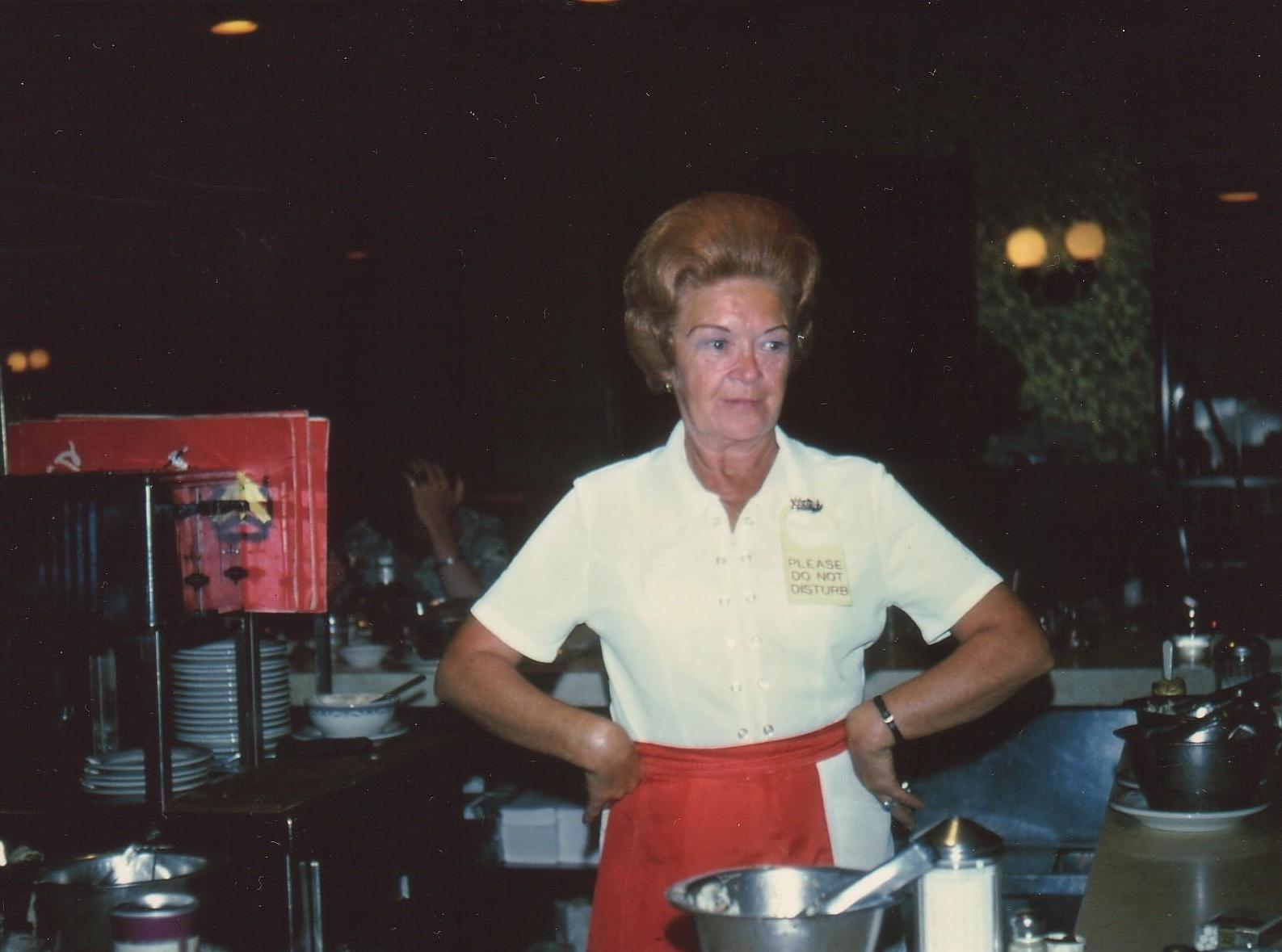 Wild Side Story slide photo of cast's favorite waitress Annie O'Black, used in musical prologue, as released by image creator Lars Jacob ProdPlace: Wolfie's, 21st Street & Collins Avenue, Miami Beach, Florida